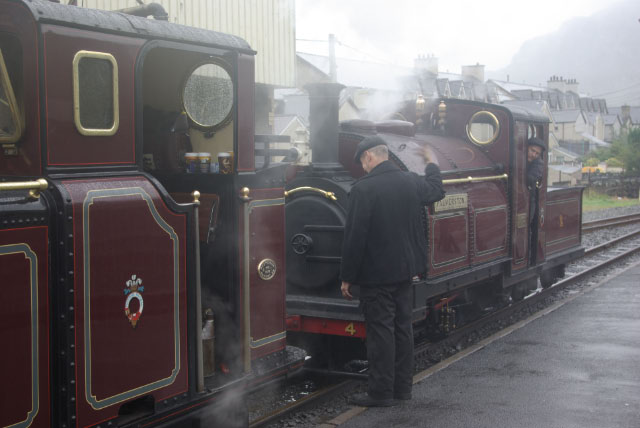 Railway operations at Blaenau Ffestiniog Handsignals are given to the driver of 'Palmerston' as he couples up to 'Taliesin' prior to both locomotives heading an early afternoon train to Porthmadog.